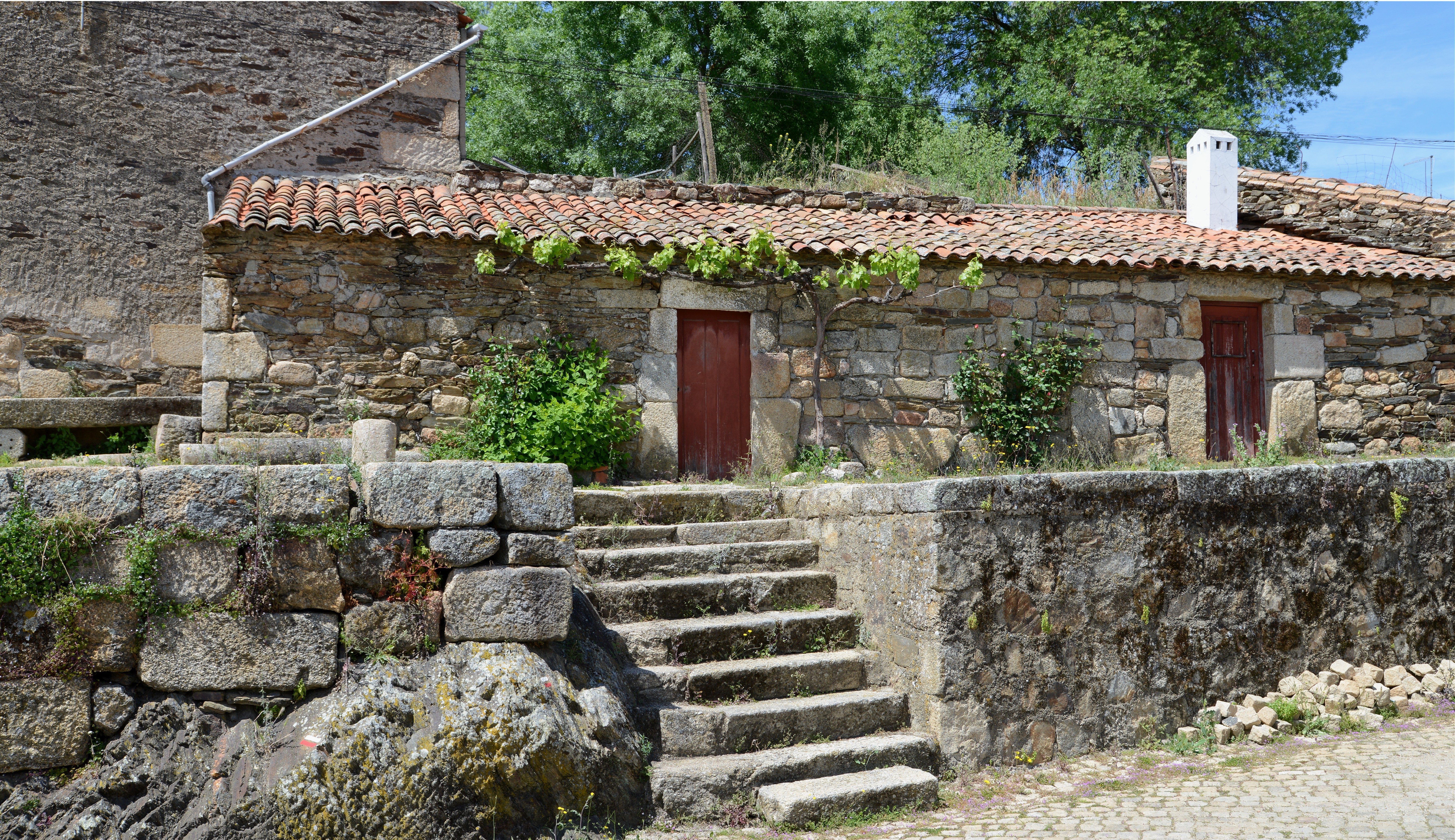 Old granite house in Idanha-a-Velha, Portugal